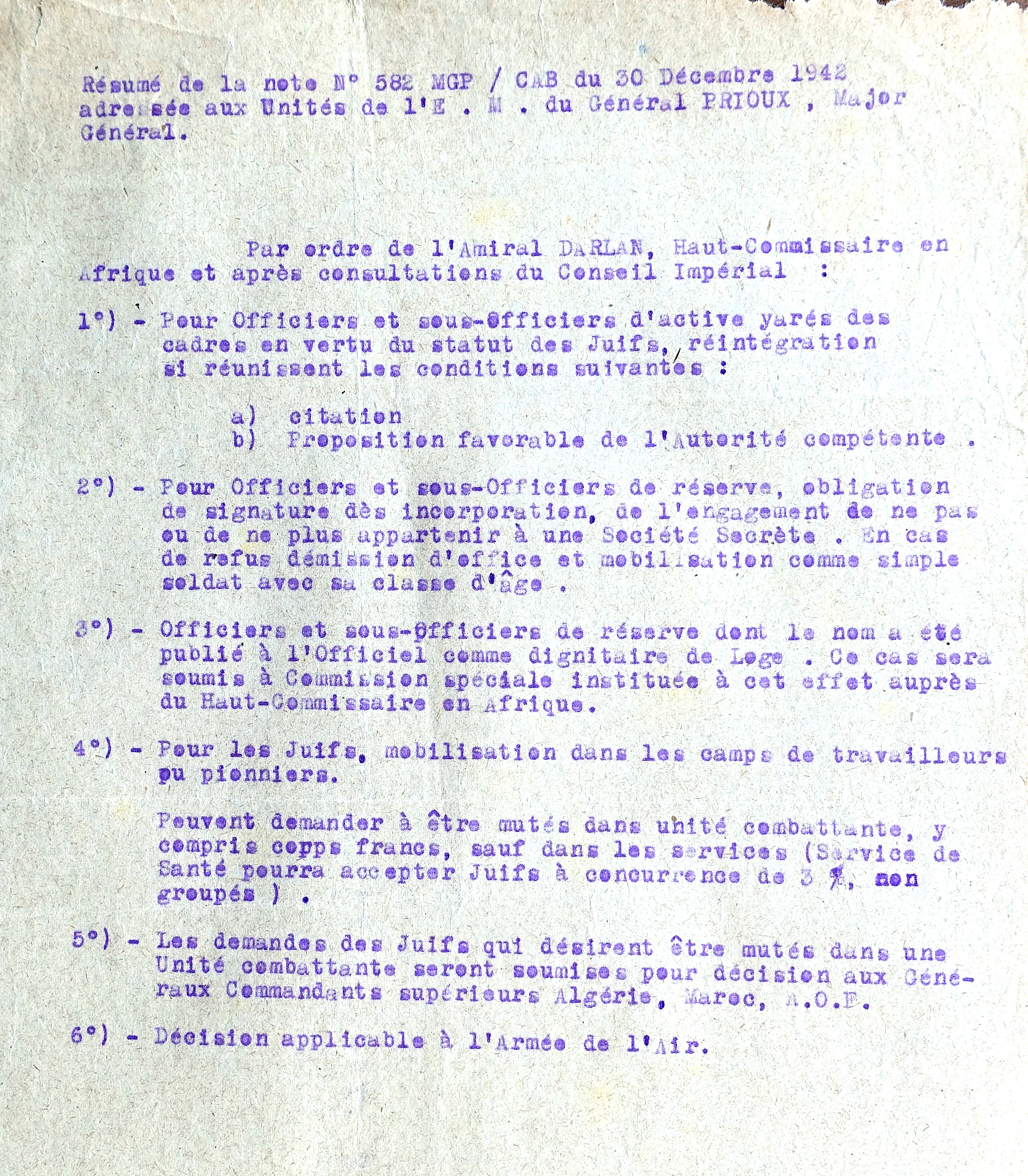 This note of the end of 1942 details the procedures applicable according to the different cases that may arise to exclude, limit or divert Jewish officers and Freemasons in the reconstitution of the fighting forces.